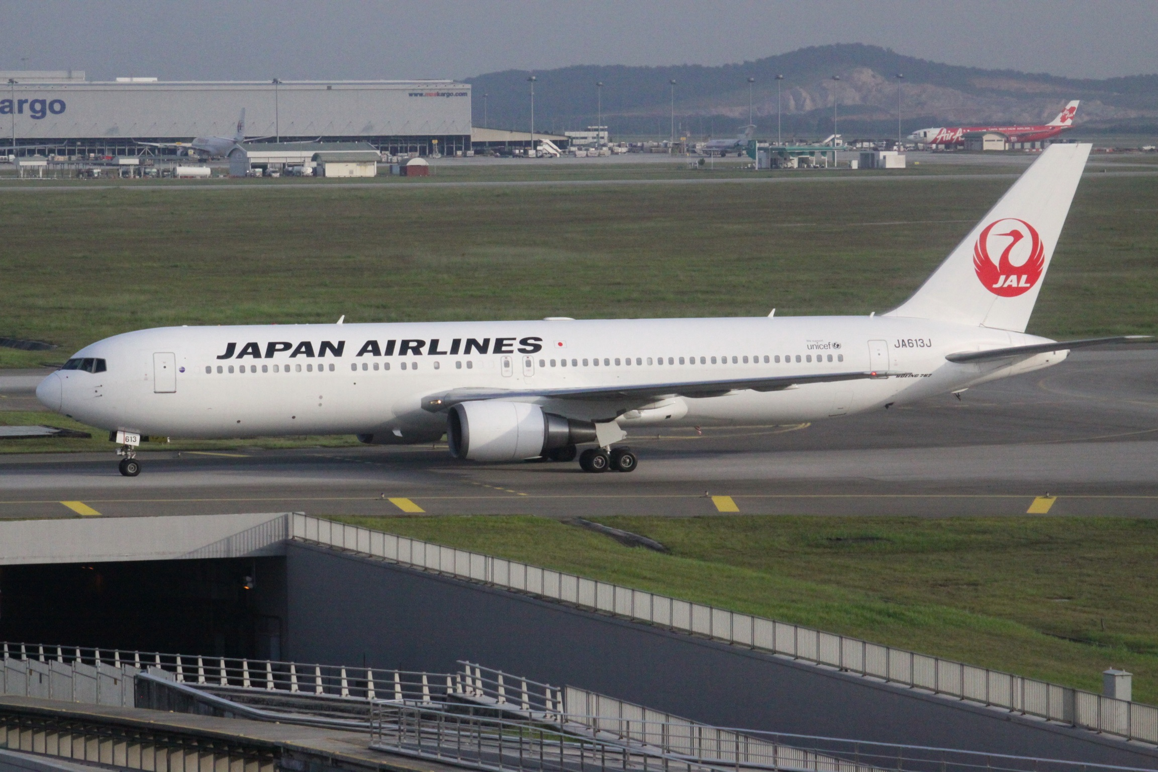 At Kuala Lumpur Sepang